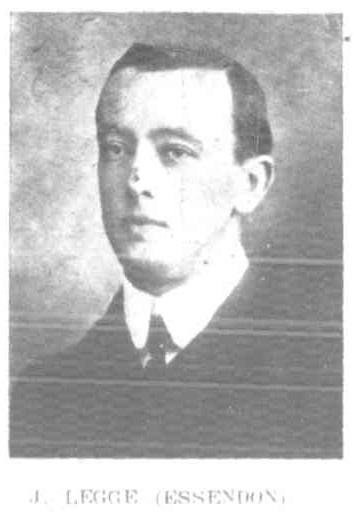 Photograph of Arthur Legge featured in Punch Newspaper in 1907